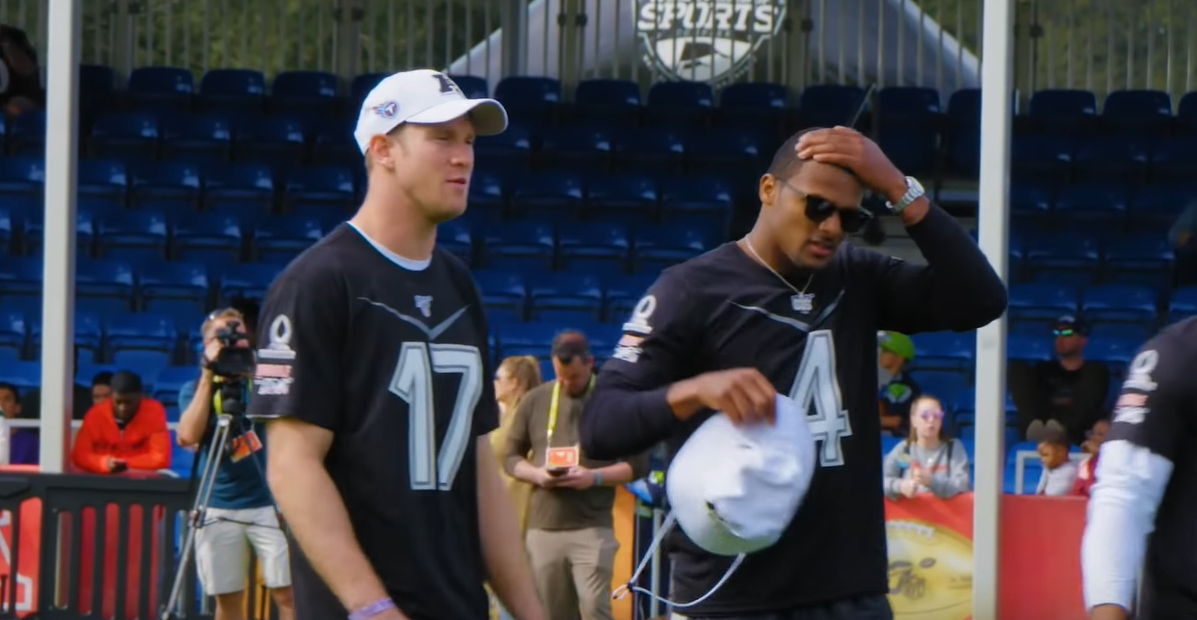 Ryan Tannehill and Deshaun Watson during Thursday's Pro Bowl practice in Orlando.